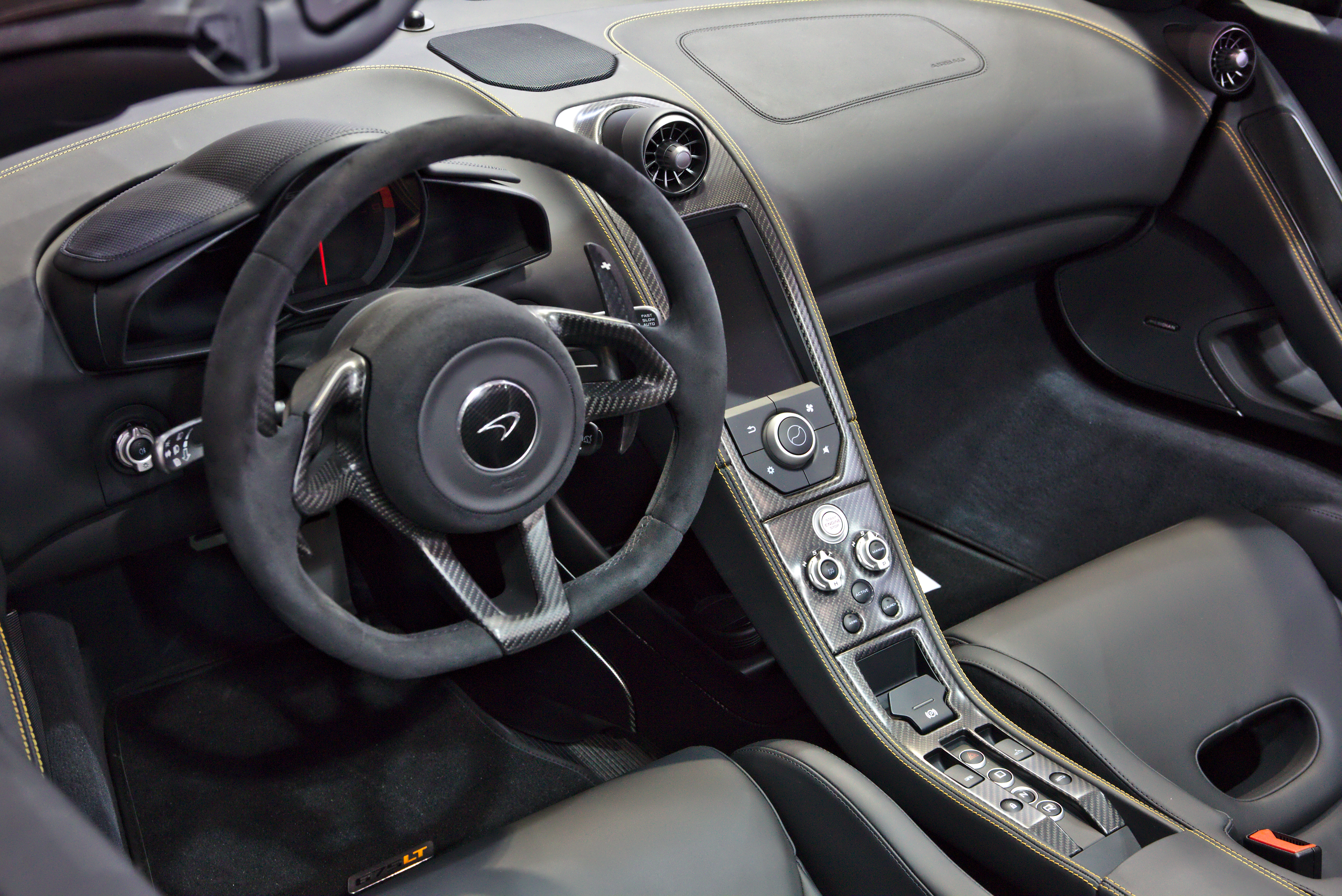 McLaren 675LT One of 500 at Retro Classics 2018